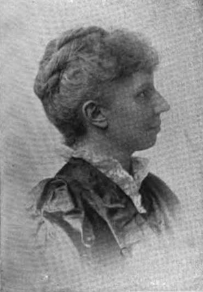 Clara Louise Burnham